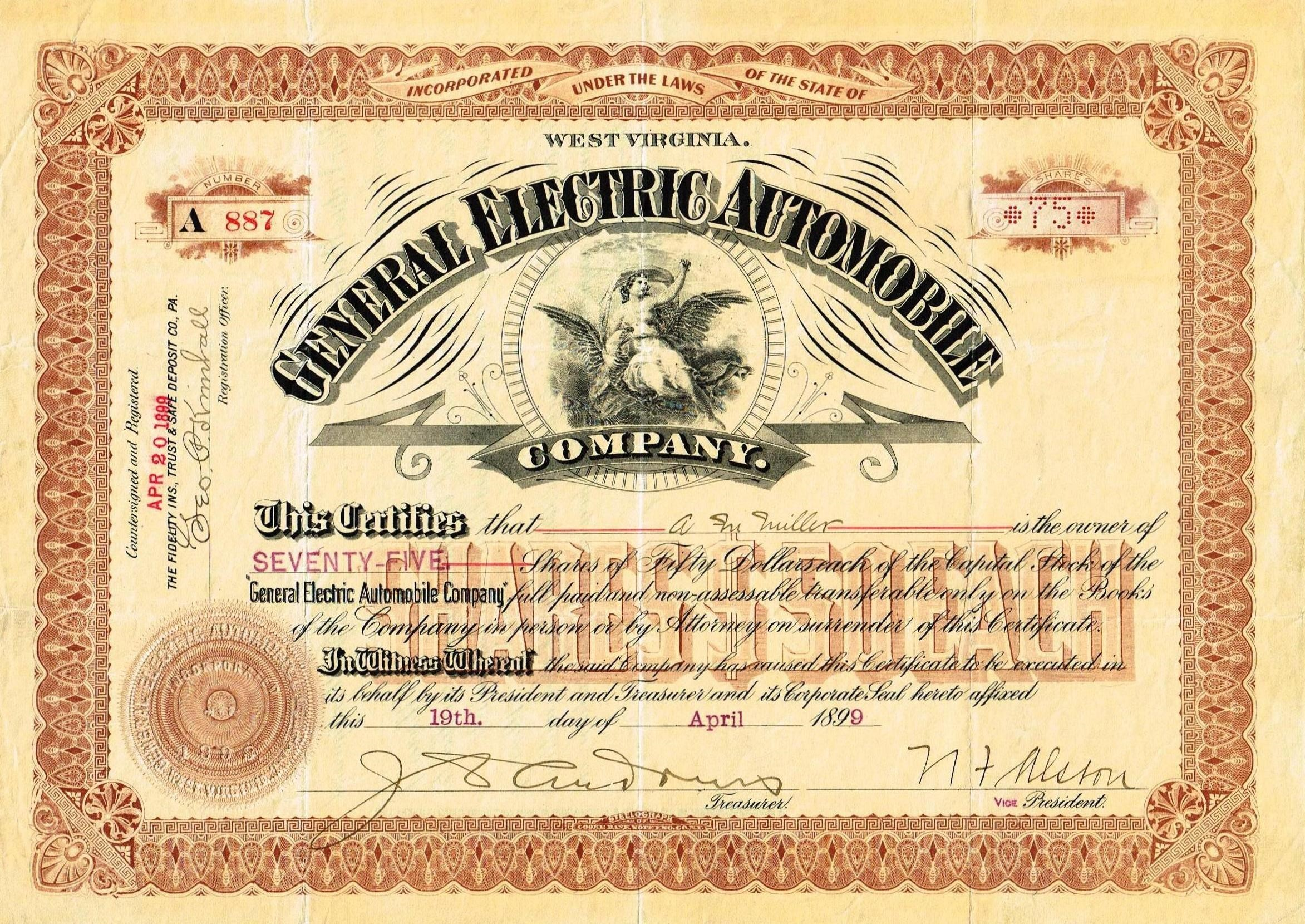 Share of the General Electric Automobile Company, issued 19. April 1899